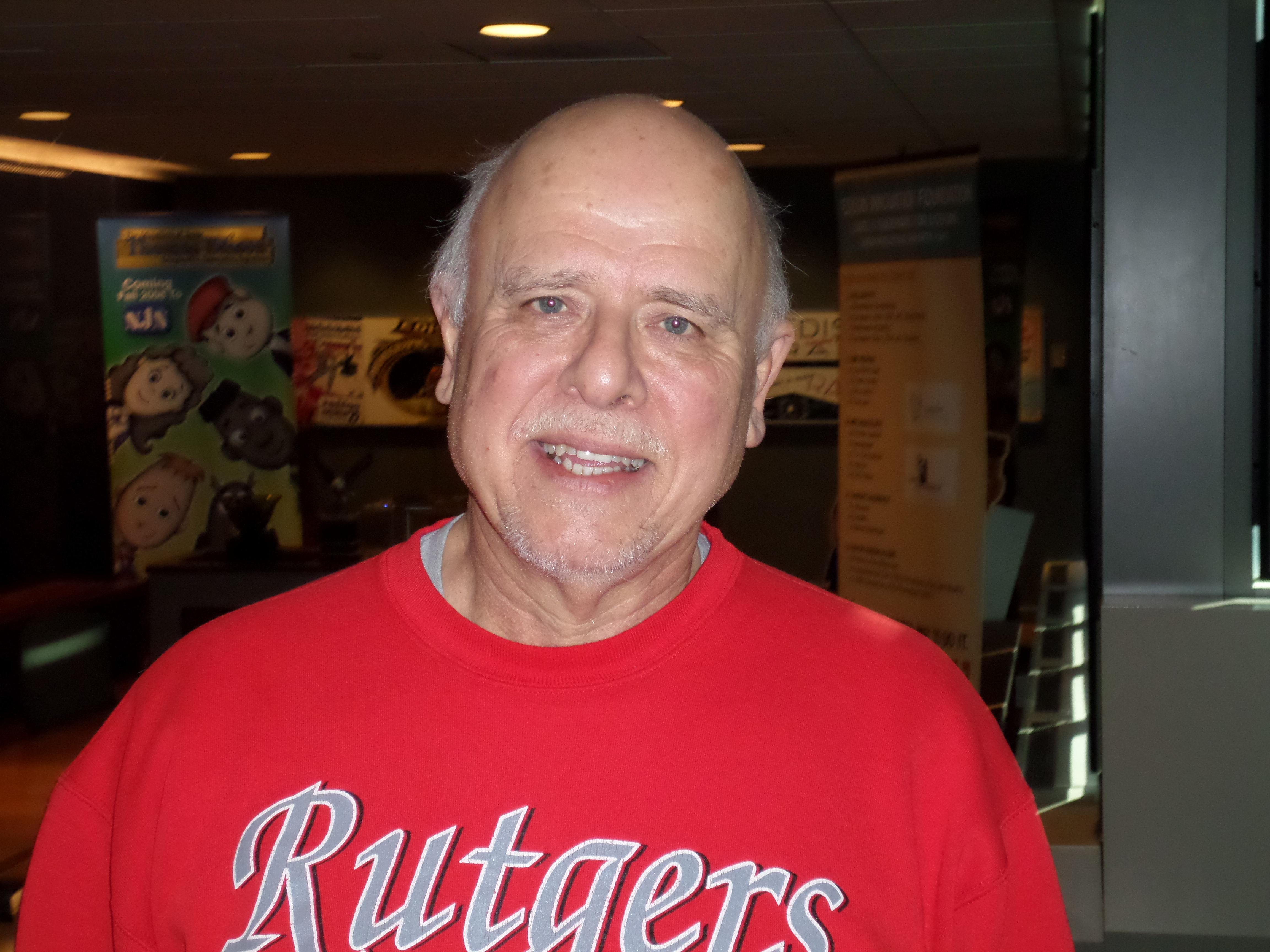 Dr. Thomas Jeffrey (January 2017)